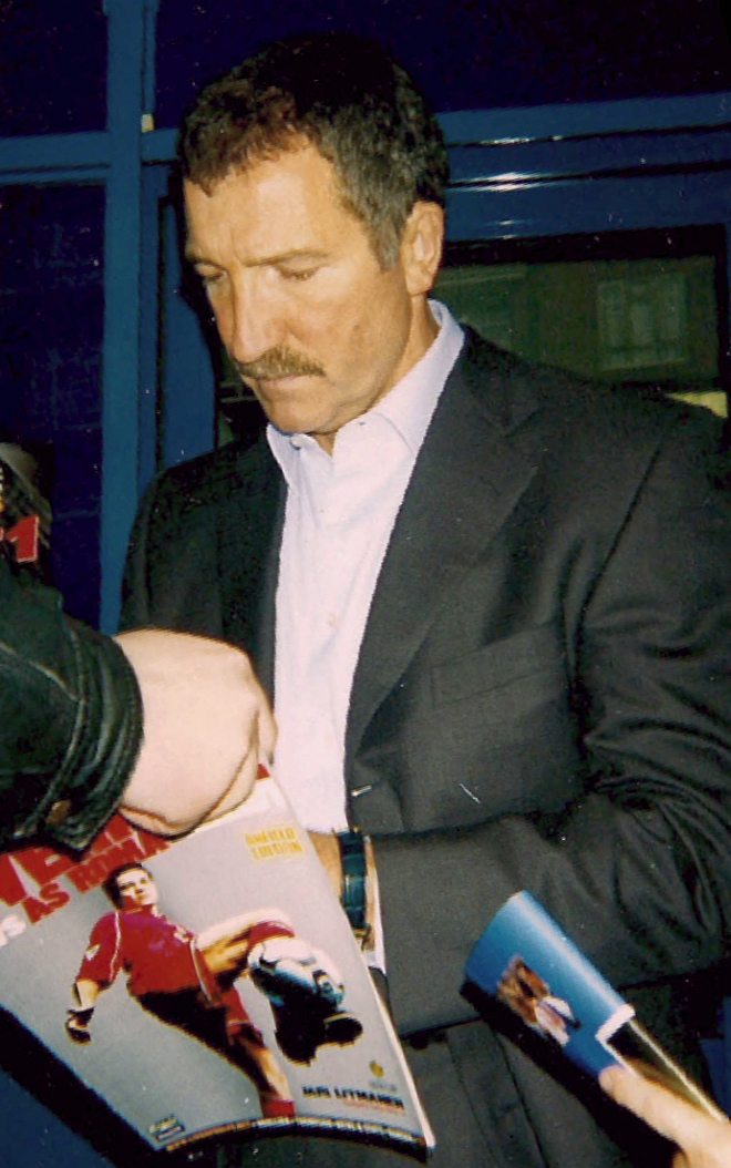 The footballer Graeme Souness signing autographs in front of the stadium at the Loftus Road. Shot from 07.04.2001 after the match Queens Park Rangers (QPR) against Blackburn Rovers.